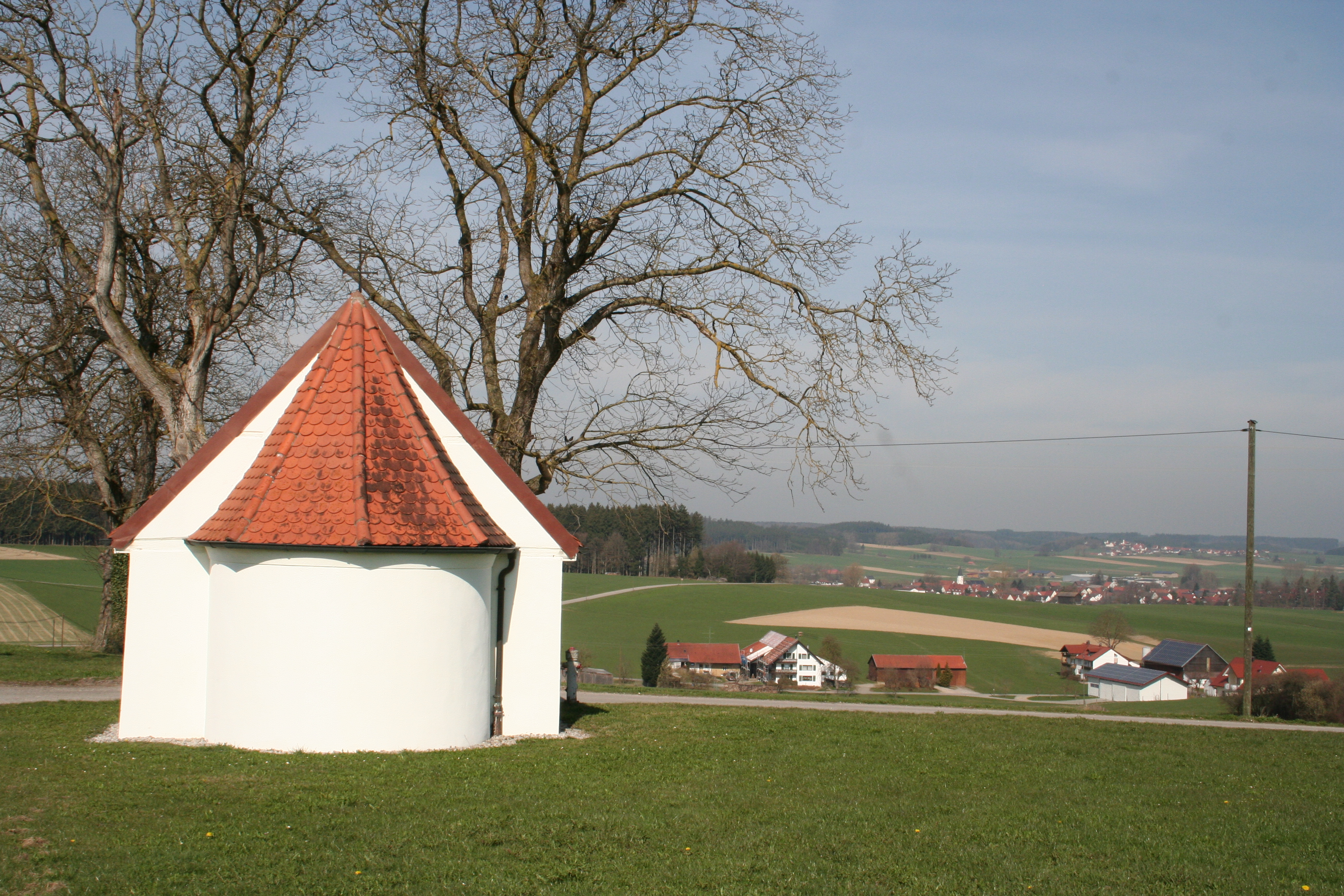 Wasserberg (Aletshausen)